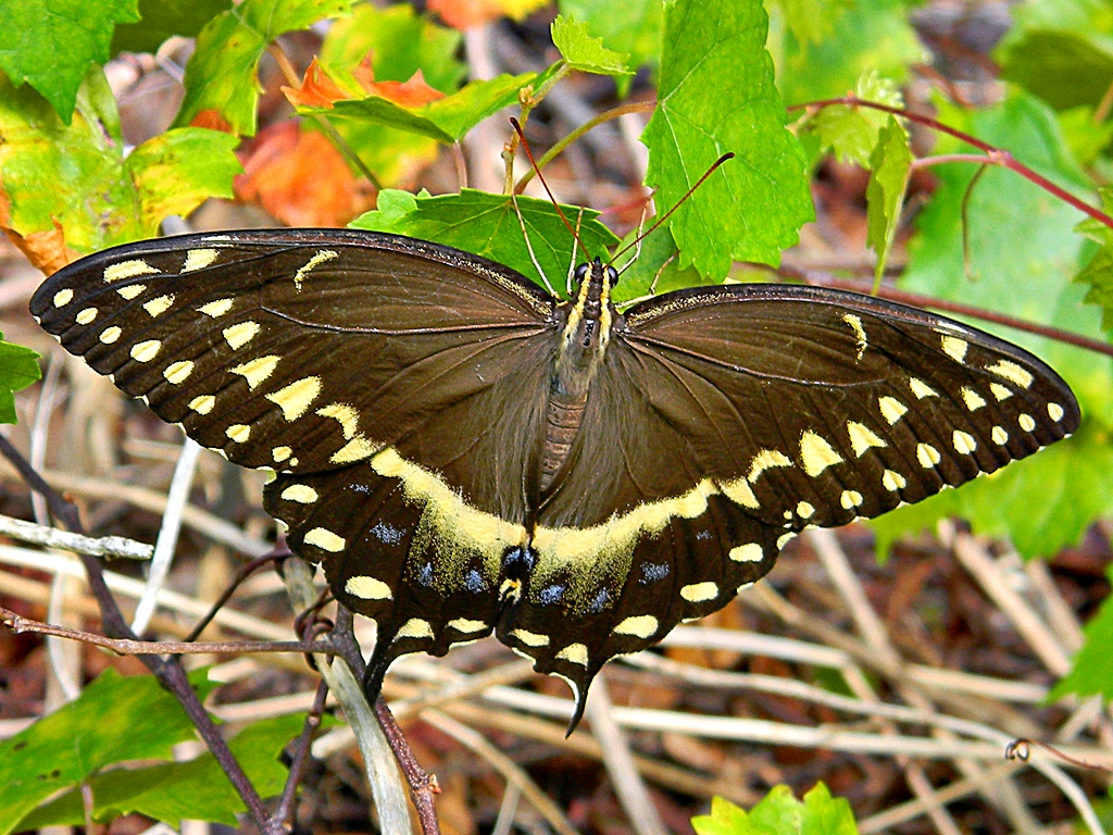 (Papilio palamedes) on muscadine grape vine. Unfortunately, this is a handheld snapshot, I had just enough time to drop to my knees and get one shot before she flew away and I never got a 2nd chance. Frenchman's Forest Natural Area, Palm Beach County Florida, October 2010